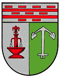 Coat of arms of Schönborn (Pfalz)